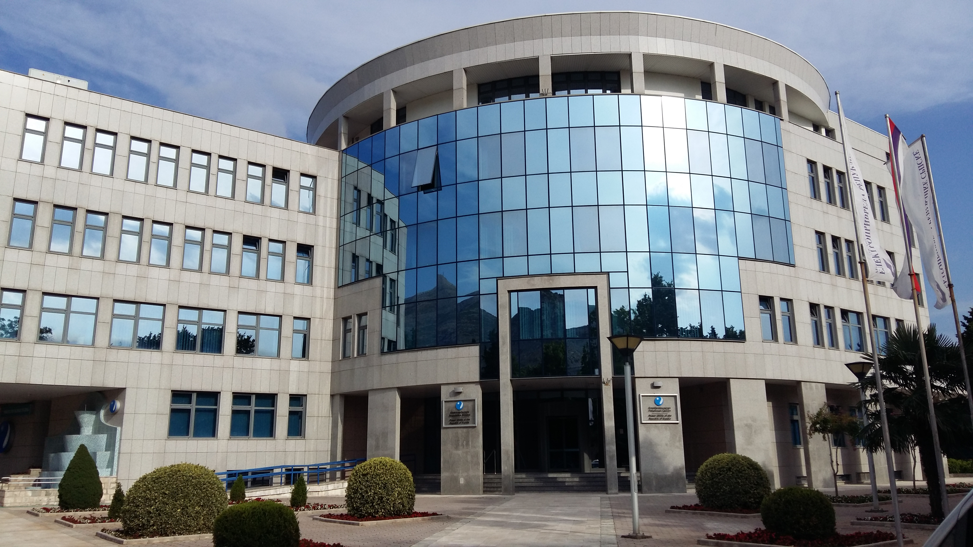 The headquarter building of the Elektroprivreda RS in Trebinje, Bosnia and Herzegovina.